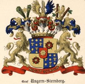 Coat of arms of Ungern-Sternberg family.